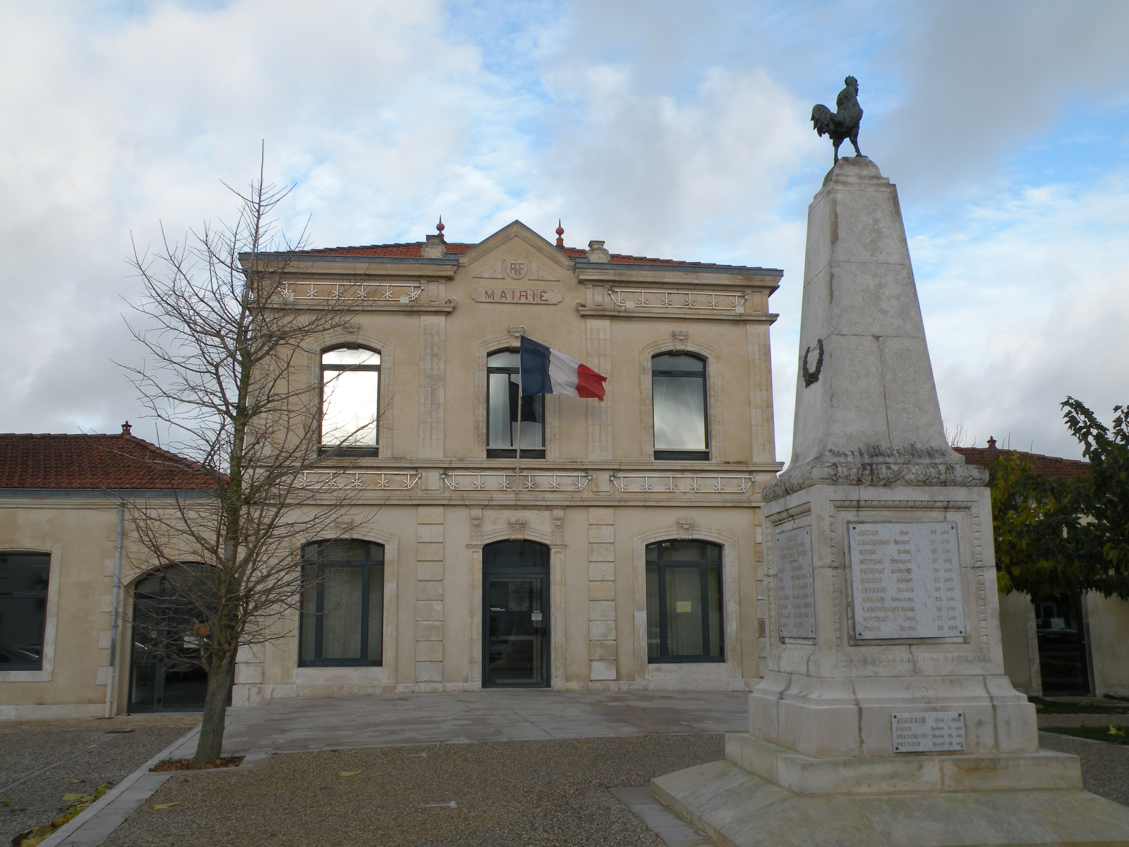 Town hall and war memorial of Courçon.